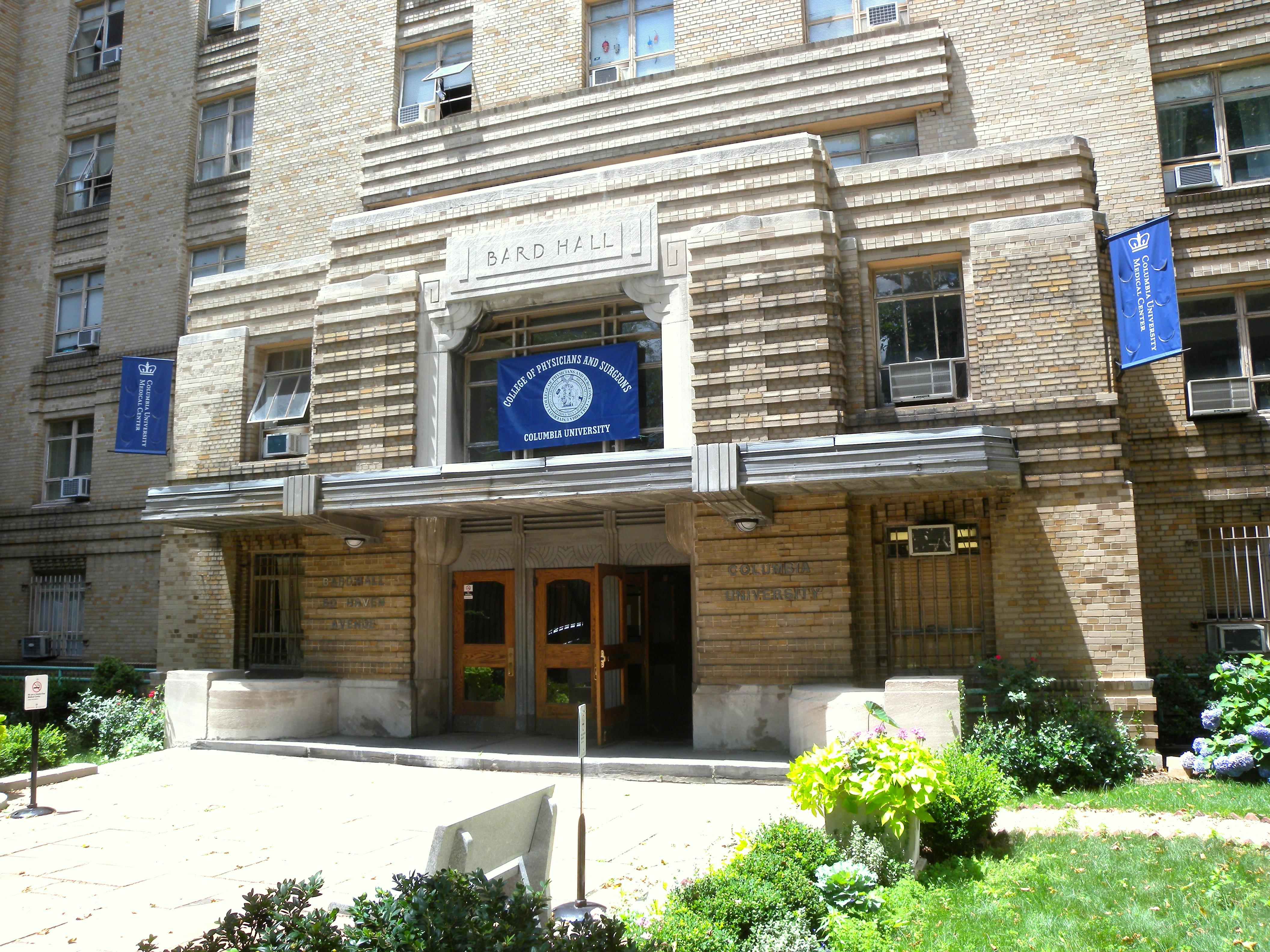 Looking west from Haven Avenue at Bard Hall of Columbia.